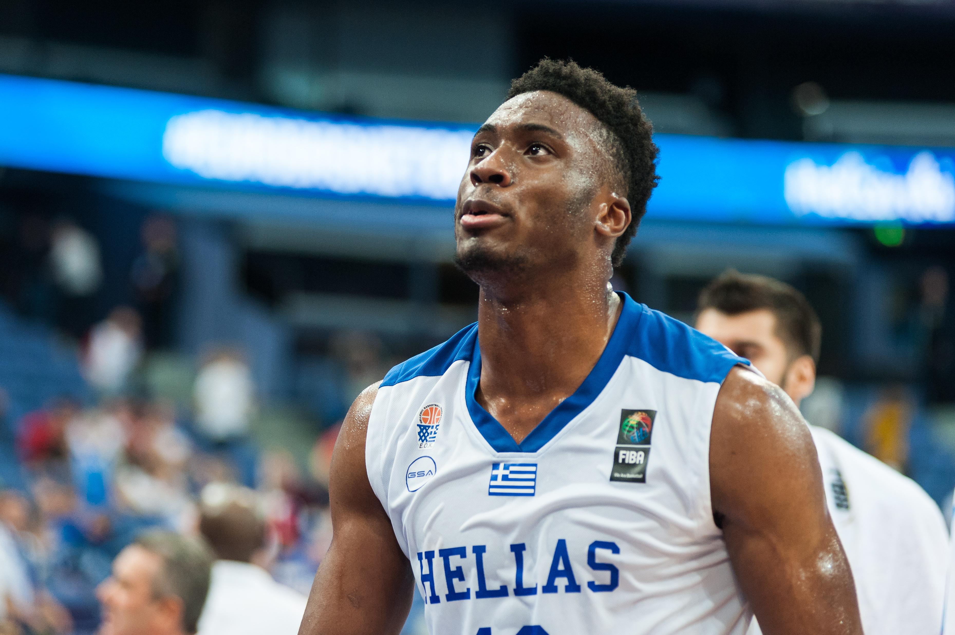 EuroBasket 2017 Group A game between Greece and France at Hartwall Arena in Helsinki, Finland.